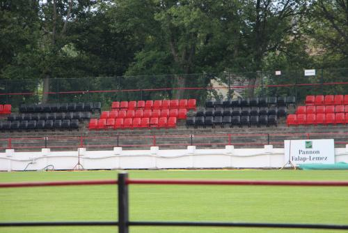 Red&black colored metal seats since 2016